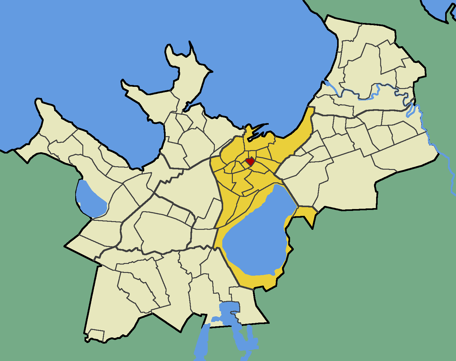 Map of Tallinn (Estonia) with borders of the quarters, Kesklinn district and Maakri quarter emphasised